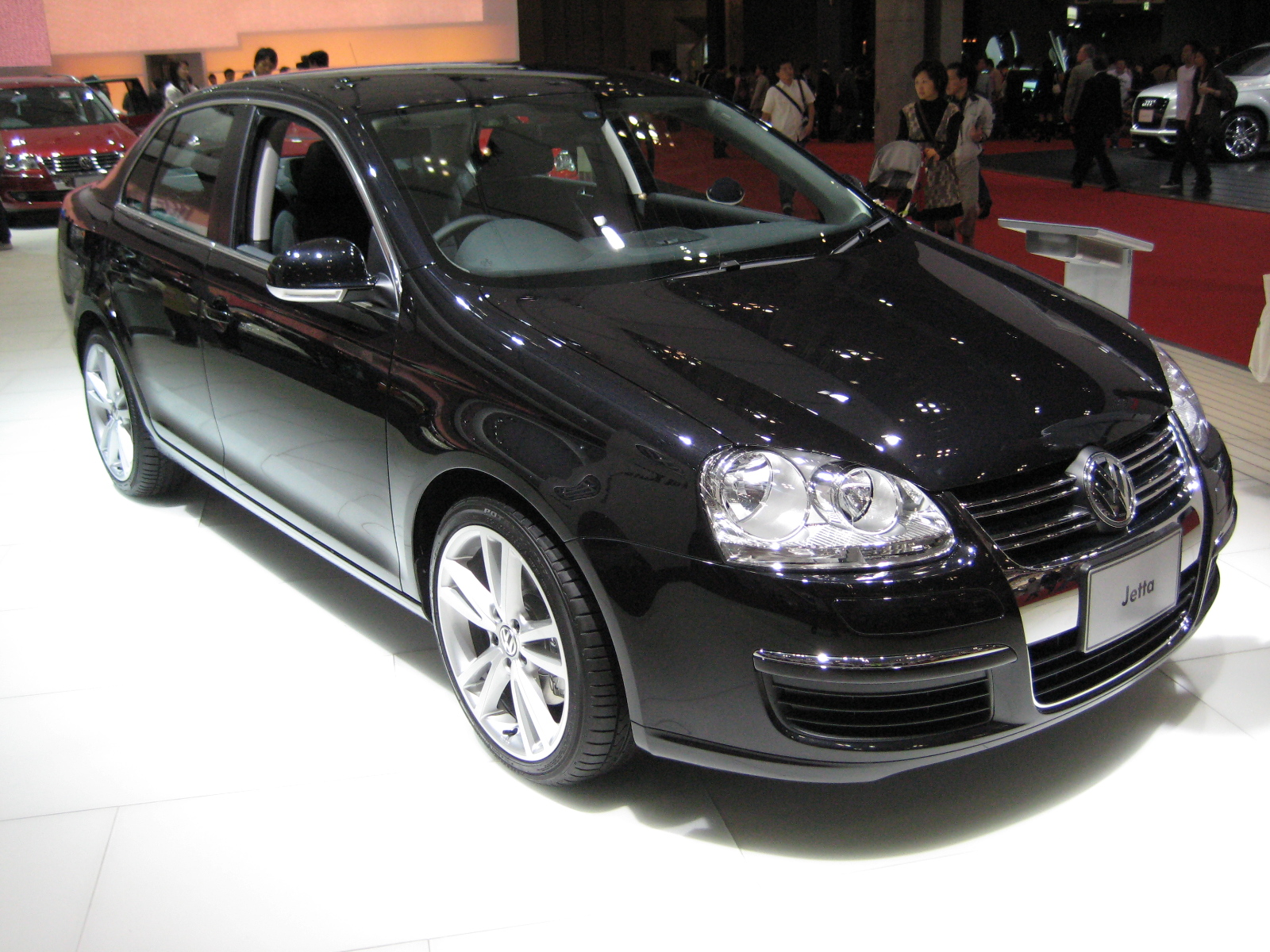 Volkswagen Jetta V in Tokyo Motor Show 2007